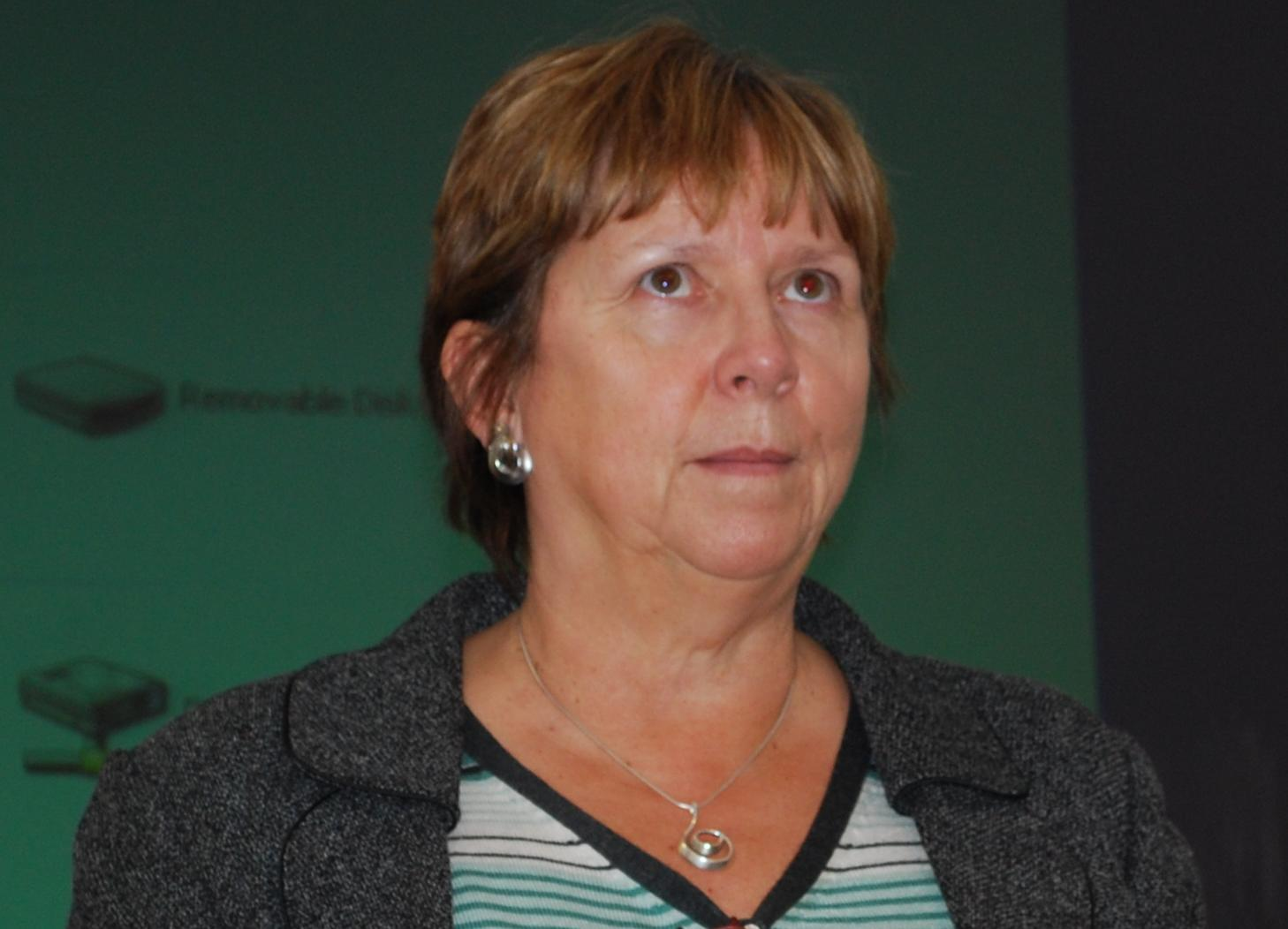 Prof. Wendy Hall, University of Southampton